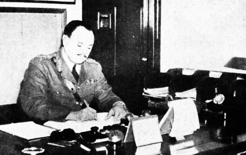 Ayub Khan's first day as the Commander-in-Chief of the Pakistan Army's office in 17 January 1951.